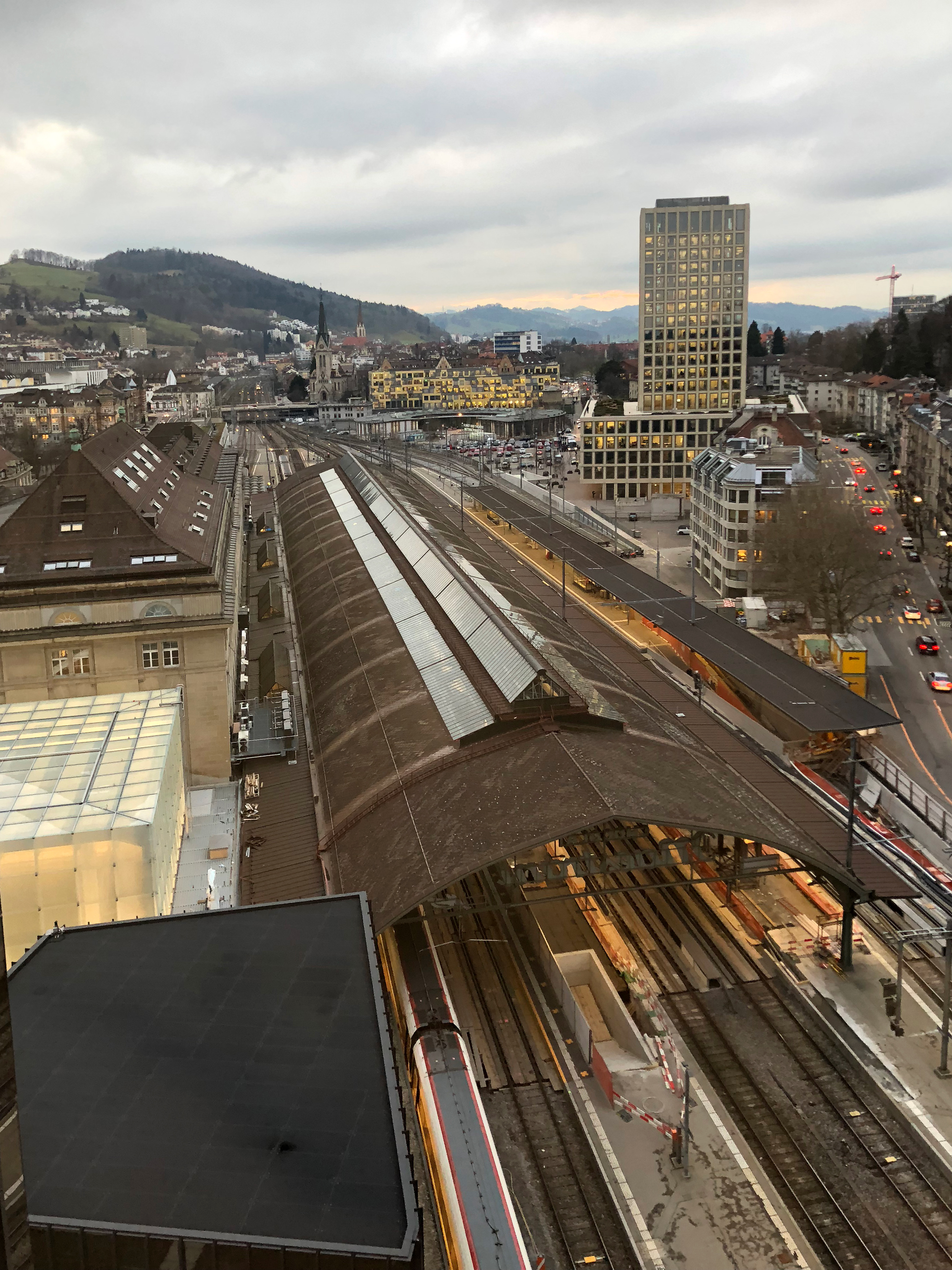 St. Gallen train station seen from above